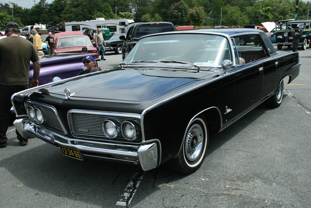 Imperial